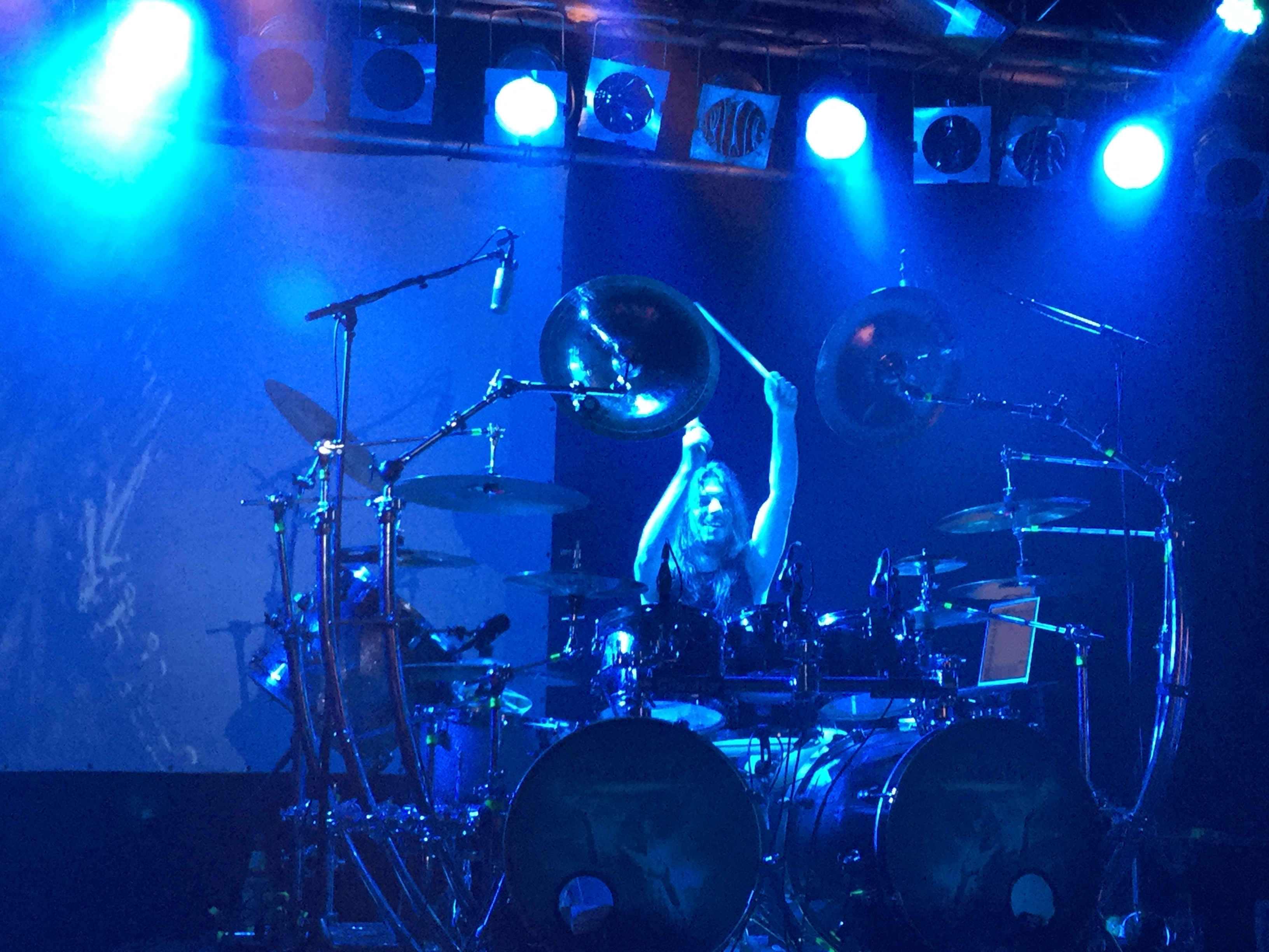 Luca Turilli's Rhapsody live in Munich (2016): Alex Landenburg